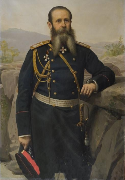 Iosif Vladimirovich Gurko